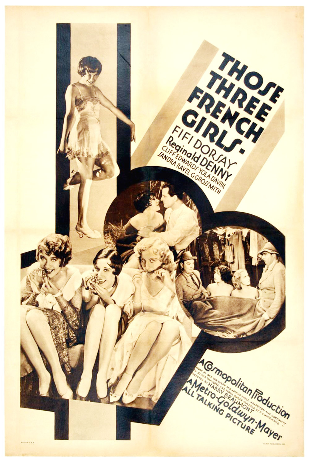 Poster for the american film Those Three French Girls (1930).